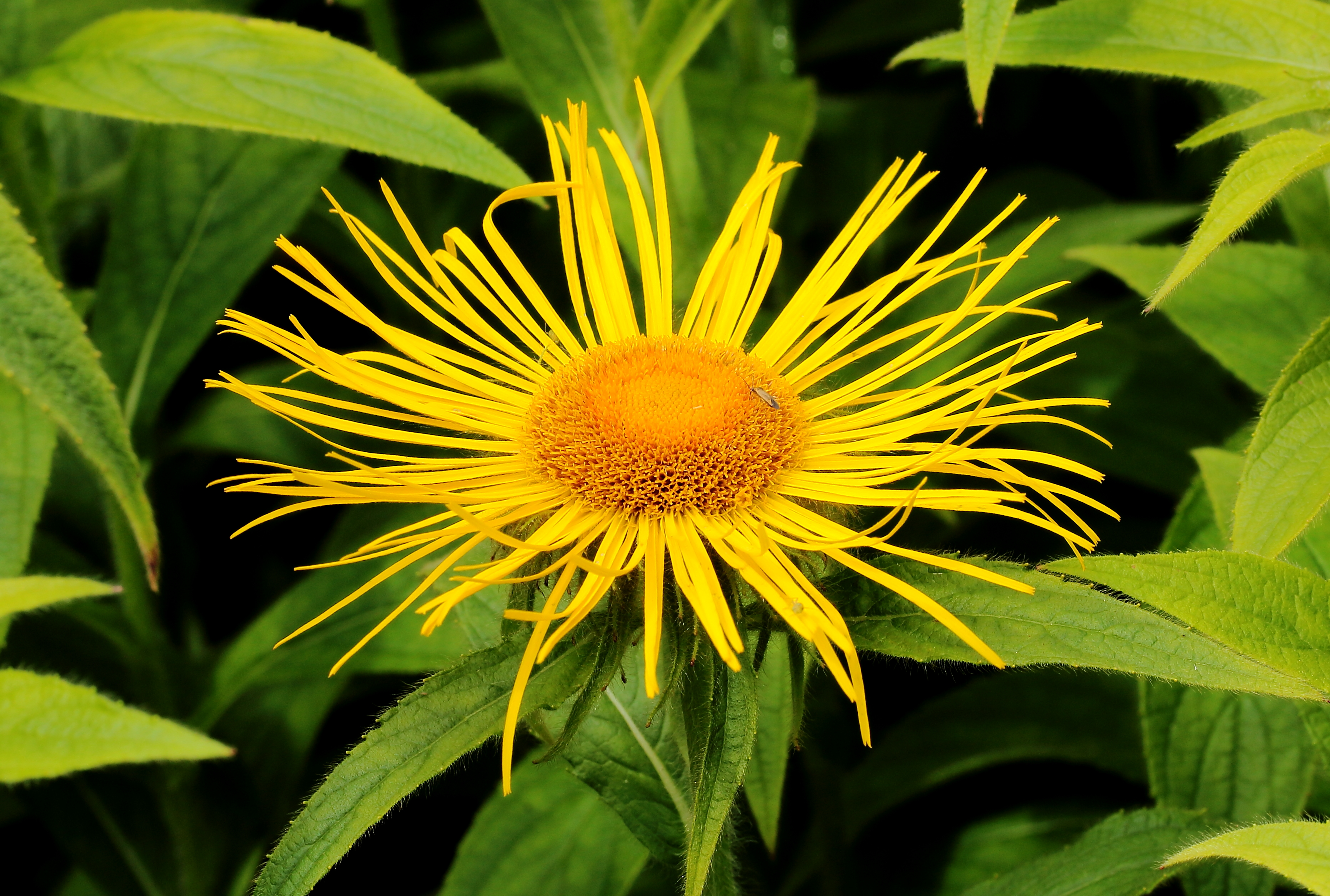 Inula hookeri. location, Tuinen Mien Ruys.